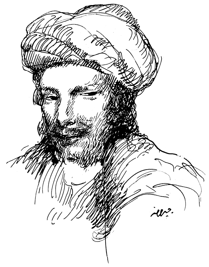 Abu Nuwas, Drawing by Kahlil Gibran al-Funun 2, no. 1 (June 1916) Abu Nuwas was born in al-Ahwaz between 130 and 145 A.D. His father belonged to the army of Marwan II, the last Umayyad, while his mother was of Persian descent. His education as a youth took place in Basra and Kufa. He is said to have studied for a time among the Bedouins in order to improve his linguistic skill.1 The appearance of Abu Nuwas’ poetry in al-Funun was very appropriate in that he has been regarded by later day critics as the representative of a modern school of poets during his day. His remaining poetry, which contain many panegyrics to the Barmakids of Baghdad and al-Amin the son of Harun al-Rashid, imbued a freshness into the genre of classical Arabic poetry that made it appealing and alive; a fact which is still evident to this day. Though he composed many of his poems in the classical style, he was not limited to it. He injected into his poetry, which were often of very un-Islamic topics, such as wine and self-indulgence, a remarkable number of new terms, many of which were either Persian or vernacular expressions of the locale in which he resided. Abu Nuwas’ use of new words and vernacular expressions was very appealing to the literati gathering together through the auspices of al-Funun in New York City. He presented an example of an Arab poet who on the whole used language correctly though there may have been some errors grammatically in his poetry.2 The appearance of Abu Nuwas within al-Funun was in large part a legitimization, if one was truly needed, by those contributing to al-Funun for their right to experiment with the Arabic language. He represented one of the great poets from the golden age of Arabic literature who wrote creative and appealing poetry, but who did it in a fresh, appealing manner and in his own way.